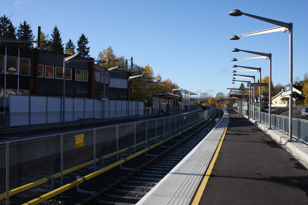 Gjettum Metrostation. Seen from track two and faced towards Hauger.